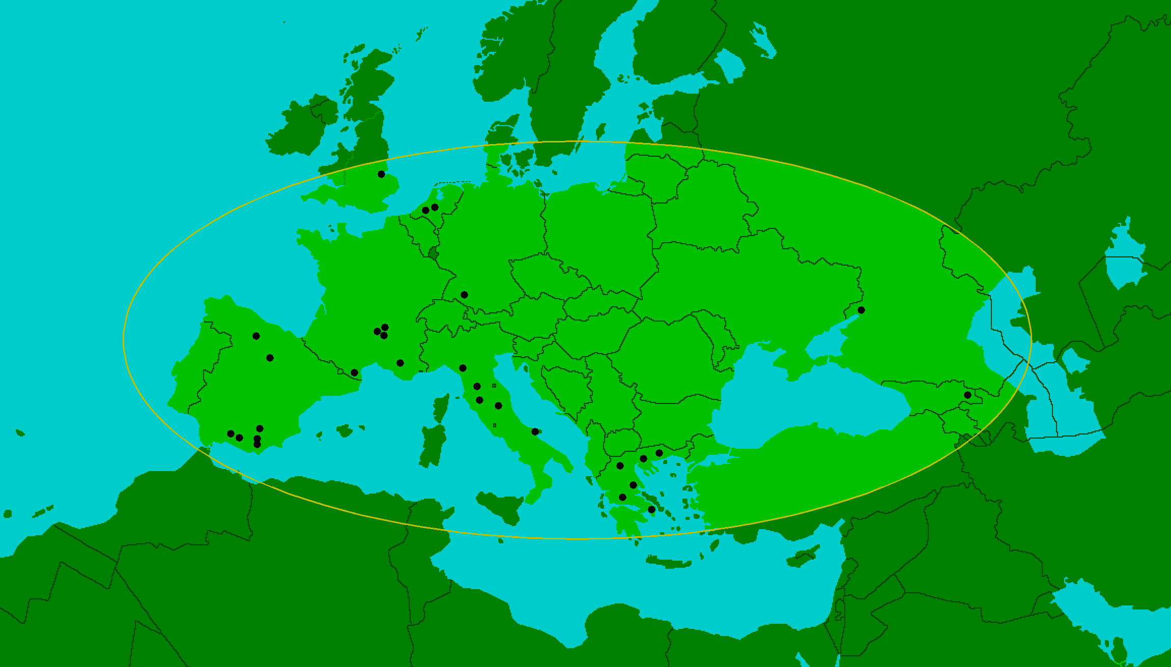 Distribution of Stephanorhinus etruscus in the Lowere Pleistocene